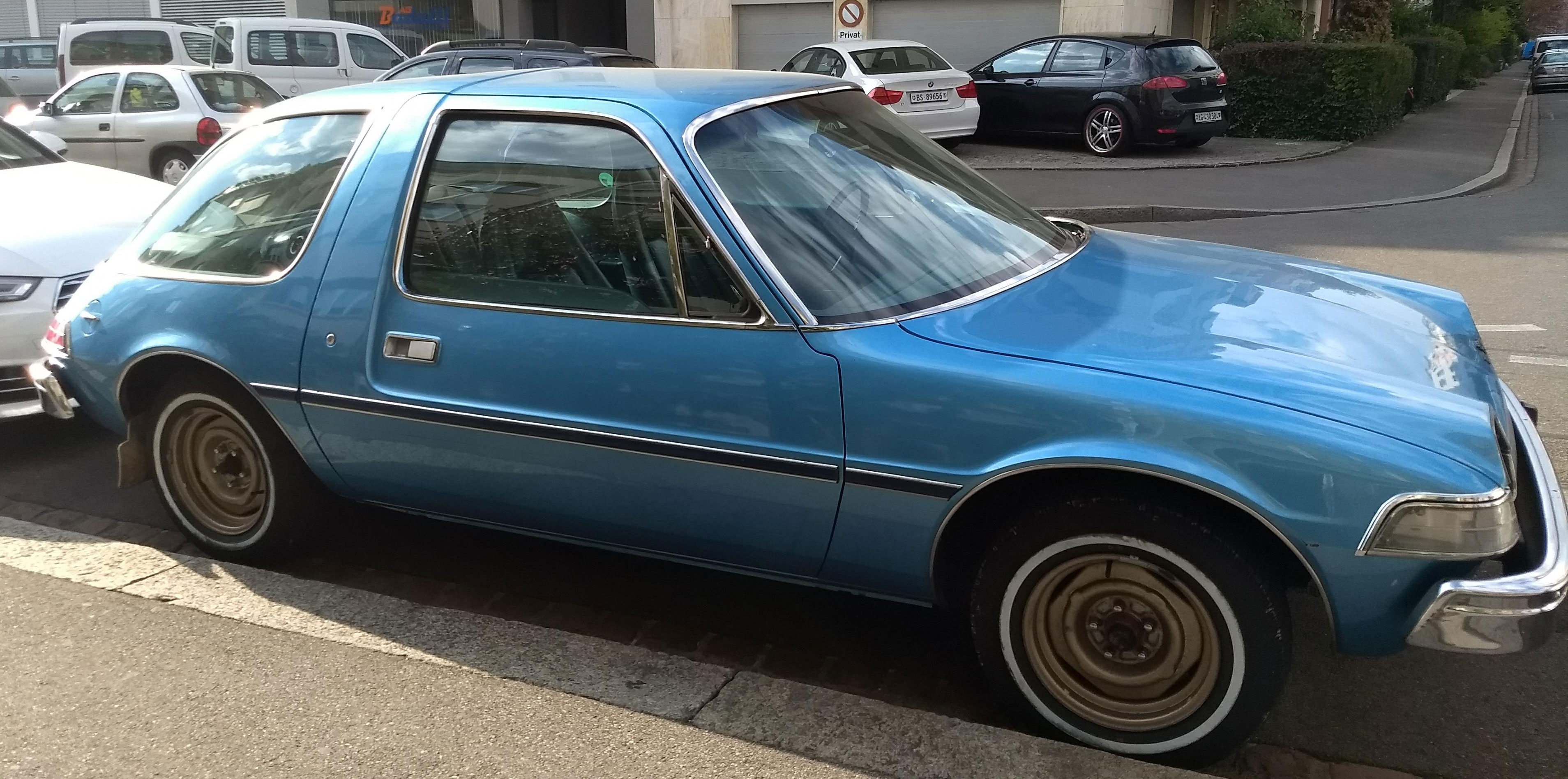 VAM Pacer X parked on the street